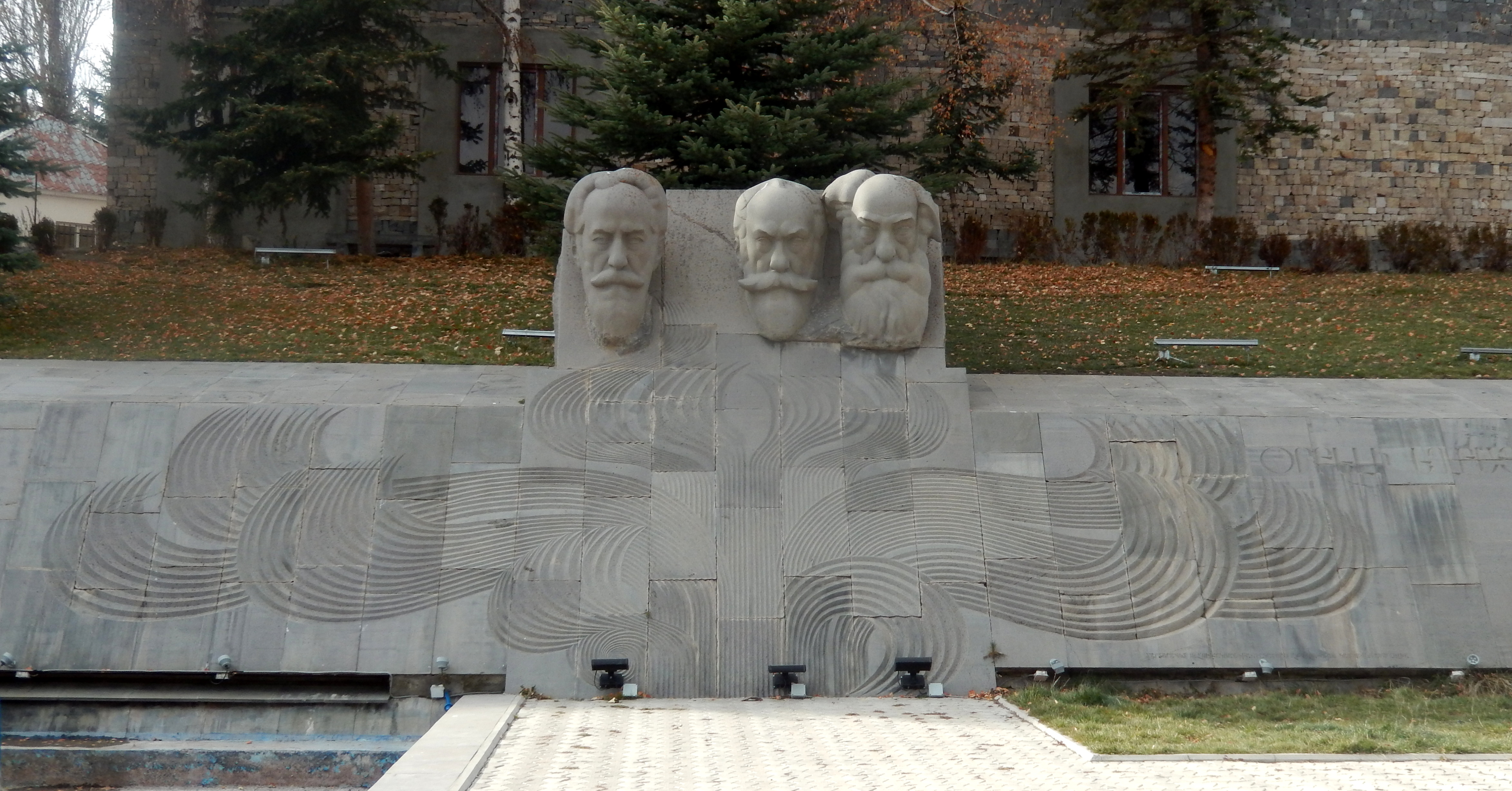 Orbeli brothers monument in Tsakhkadzor